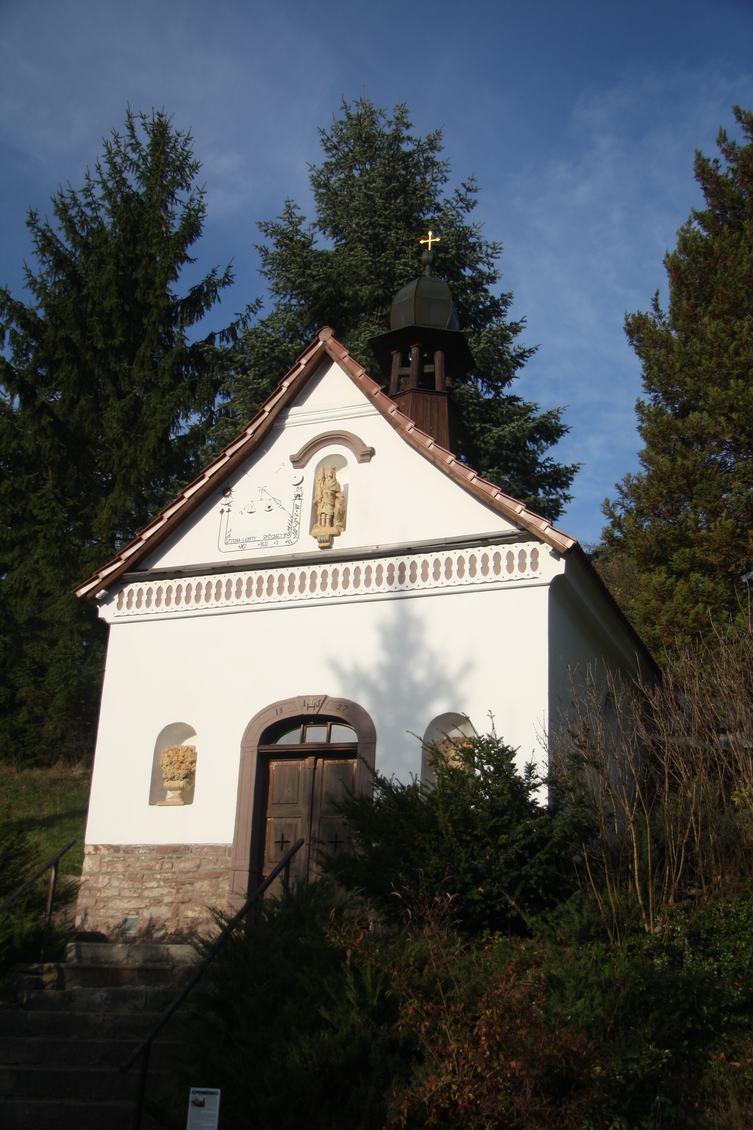 Overview of Chapel of Holy Trinity in Rokytník, Hronov, Náchod District